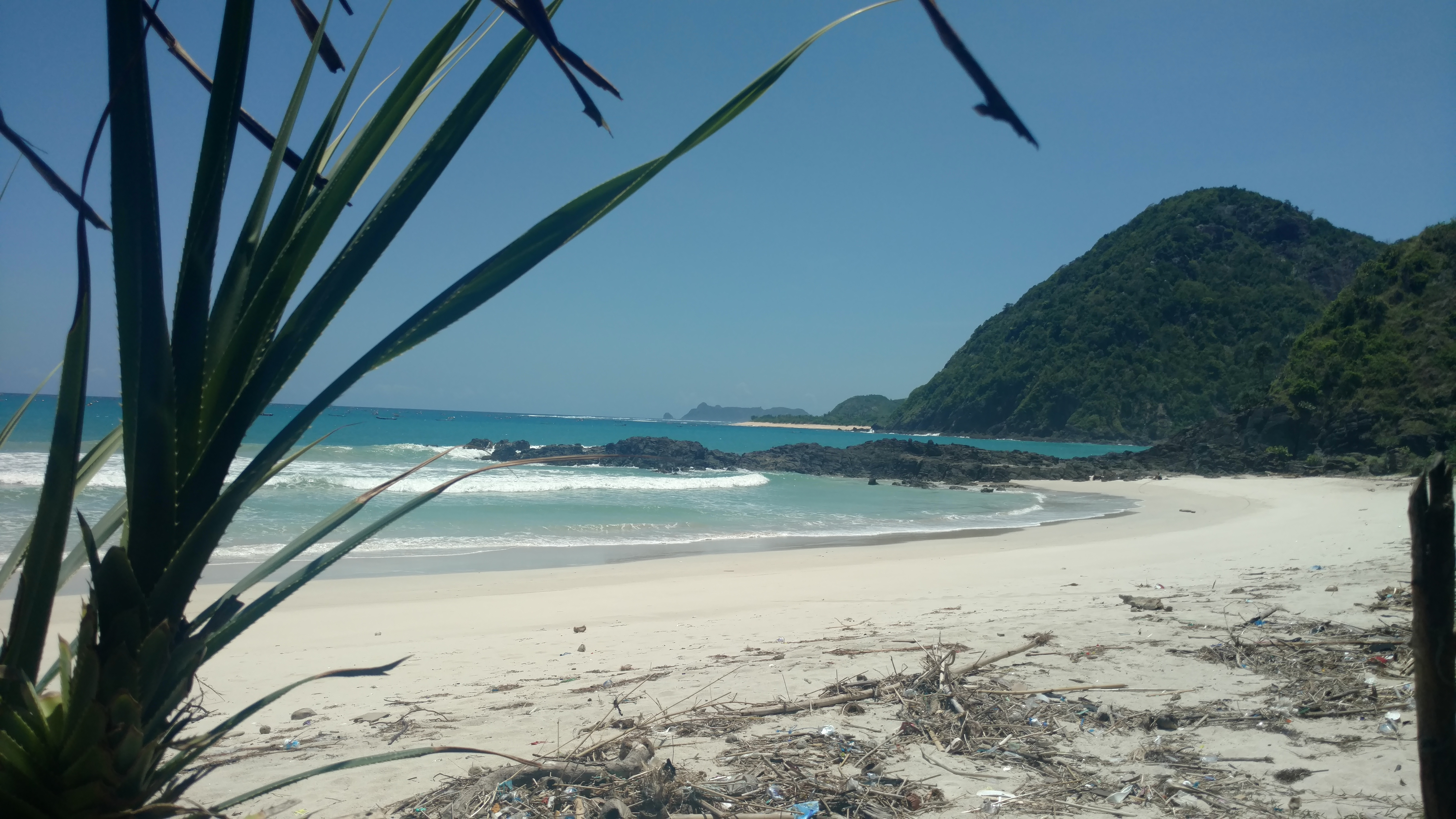 Selong Blanak Lombok